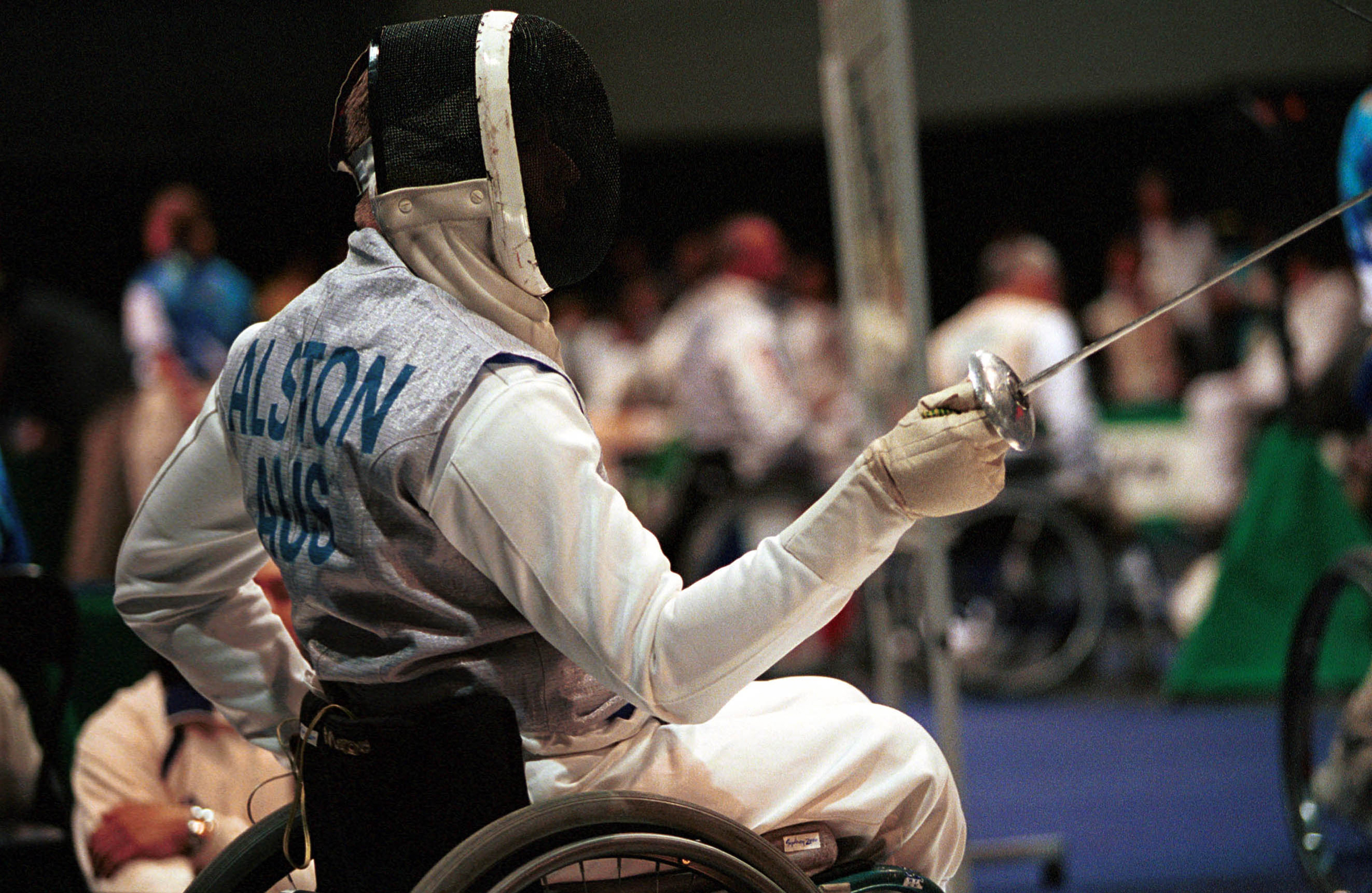 Australian wheelchair fencer Michael Alston during 2000 Sydney Paralympic Games match